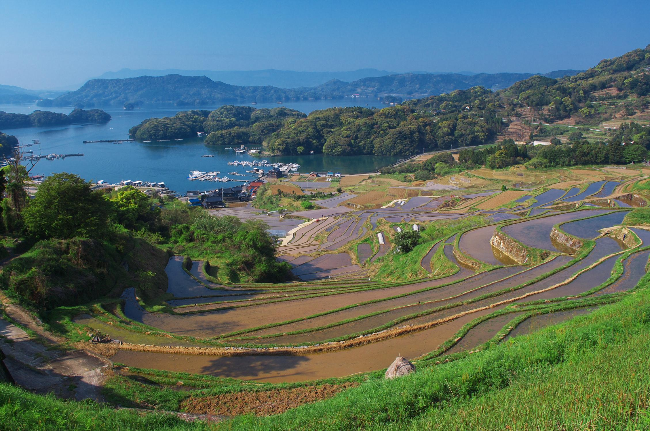 Ōura no Tanada(Rice terrace of Ōura) in Hizen town, Karatsu city, Saga prefecture, Japan.